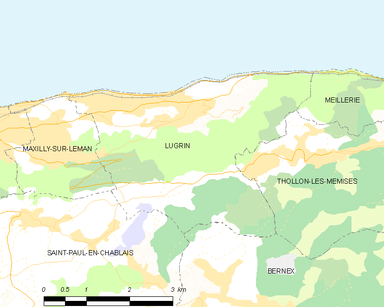 Map of French municipality Lugrin